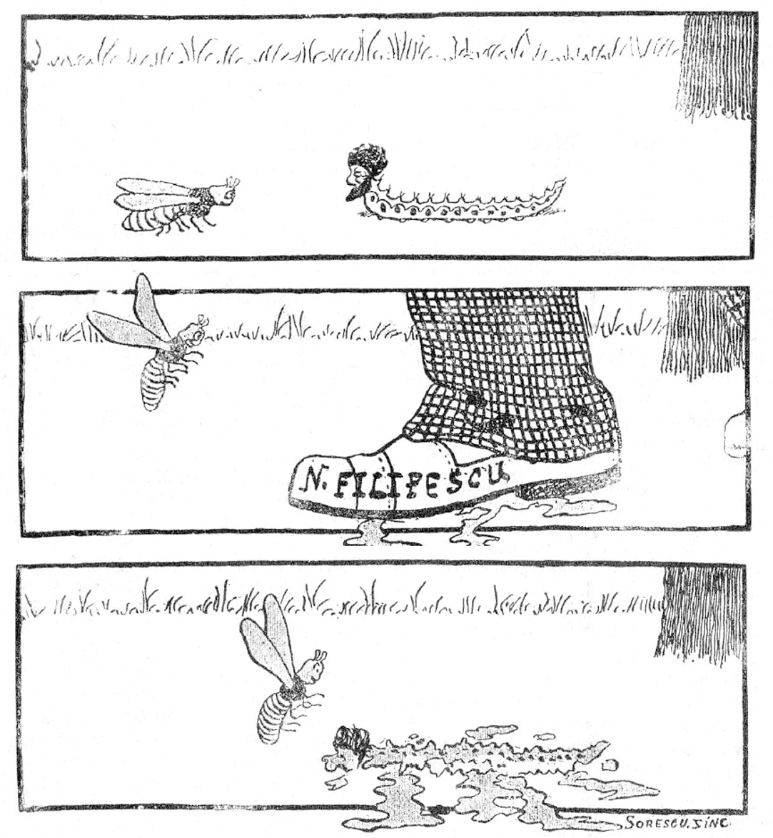 Cartoon targeting Barbu Ştefănescu Delavrancea, the Romanian writer-politician and famed public speaker. Delavrancea had just quit the National Liberal Party and moved into the Conservative group. Here, he is depicted as a caterpillar, trying to persuade a bemused fly to follow his lead. His oratory is carelessly interrupted when Nicolae "Conu Nicu" Filipescu, the Conservative speaker and policymaker, who squashes Delavrancea under his shoe. The implication is that Delavrancea's politics did not fit with the Conservative agenda. A rhyming libelle that was published with the drawing proclaims: In clipa cea din urmă, când trăncănea limbricu / Din greŭ, cu ghiata'ĭ mare, îl calcă conu Nicu ("But then, just as the worm was putting on his shtick / A heavy boot came down, and in came Mr. Nick"). The poem is signed Palavrancea (a pun on palavră, "palaver").